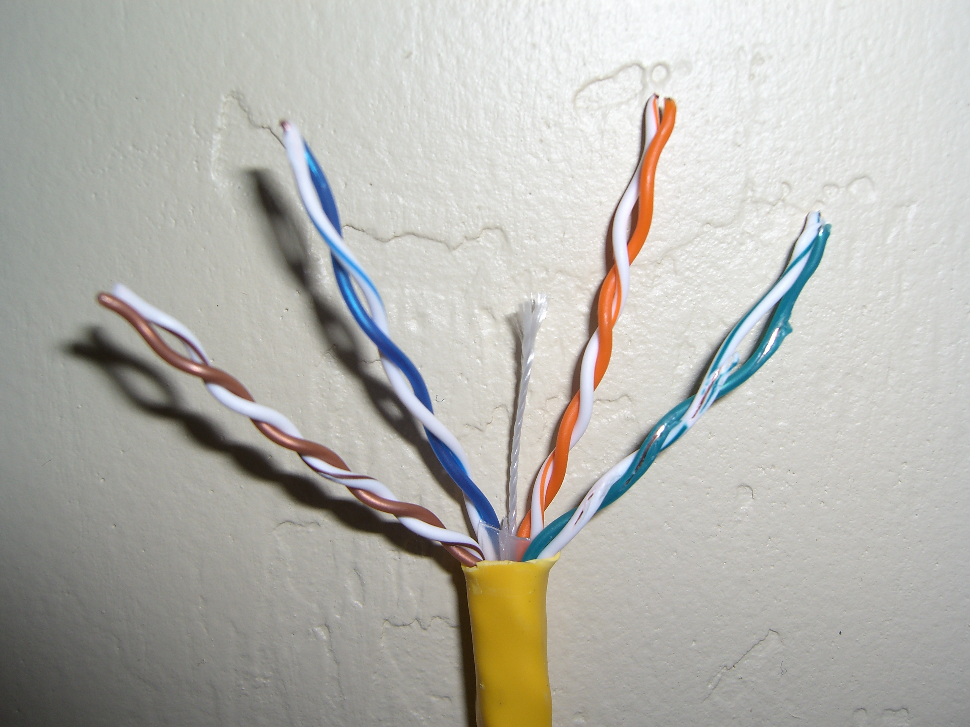 Category 6 twisted pair Ethernet cable